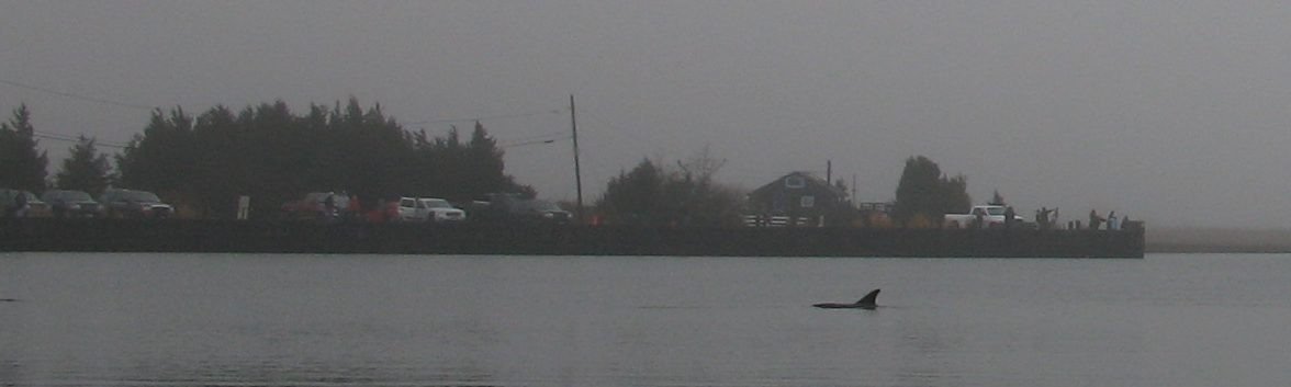 Common dolphin at Northwest Harbor. Photo by poster in January 2007.